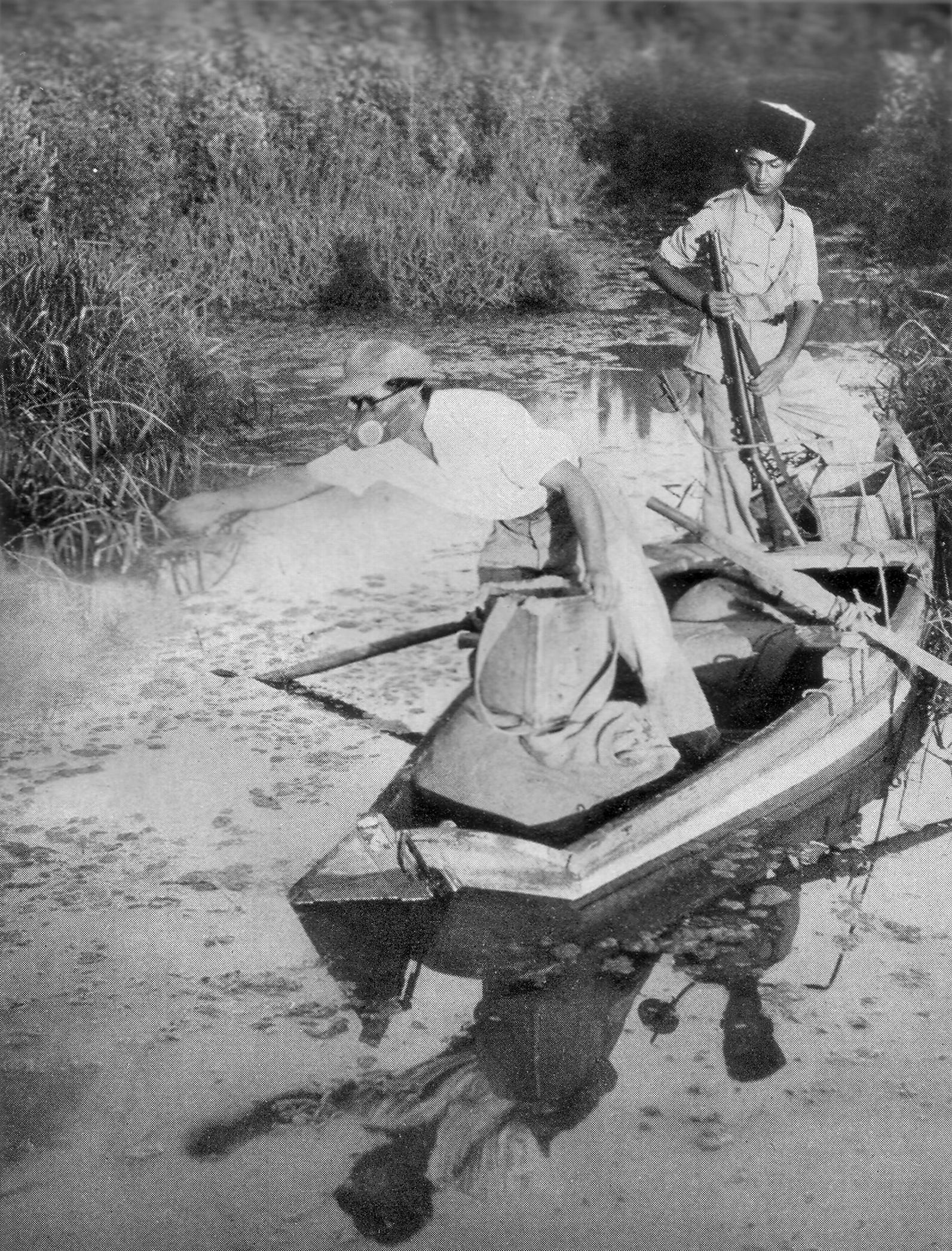 Spraying oil in stagnant water in the Jordan Valley to reduce mosquitoes and malaria